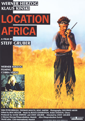 "Location Africa" promotional poster